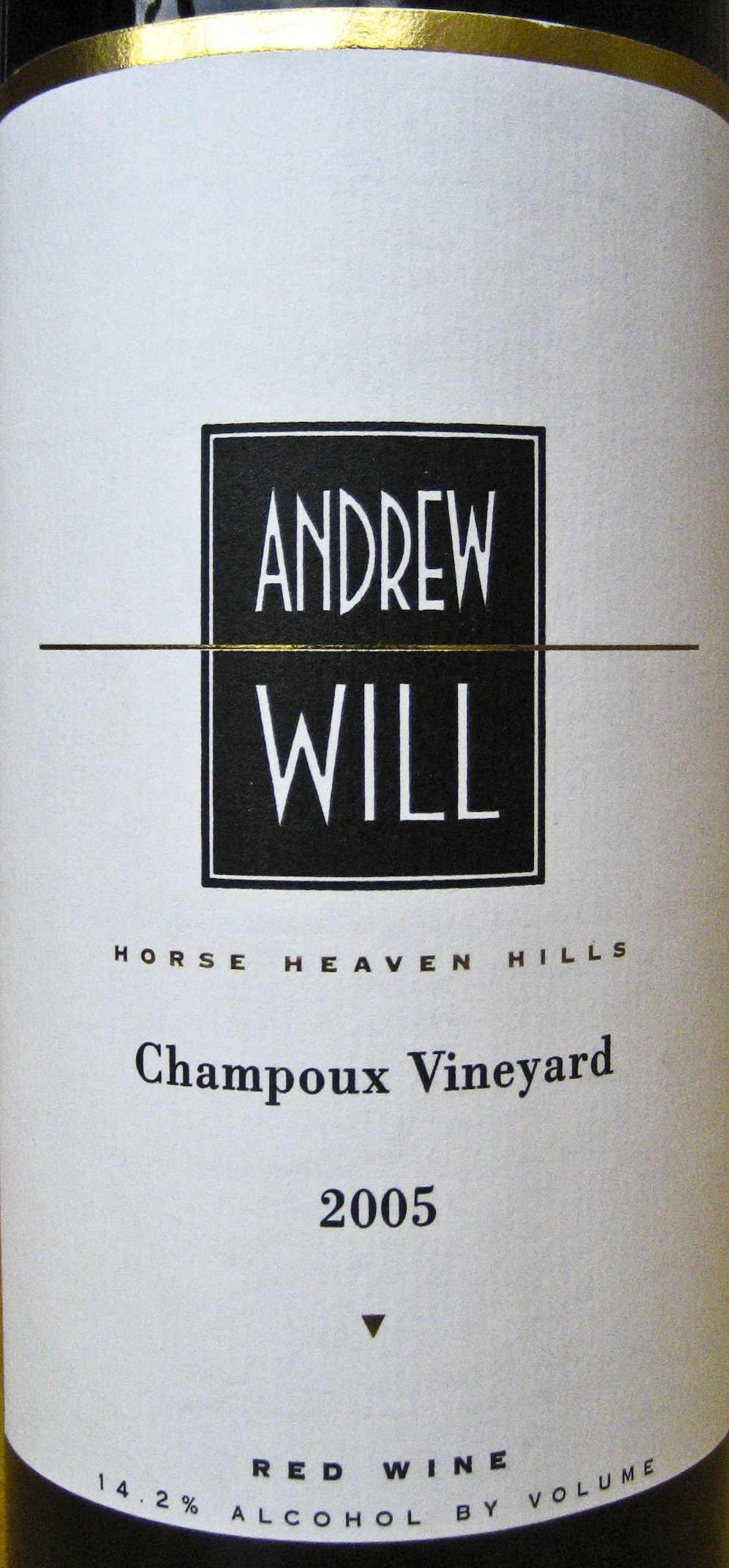 Bottle of Andrew Will wine from Washington State, Horse Heaven Hills region